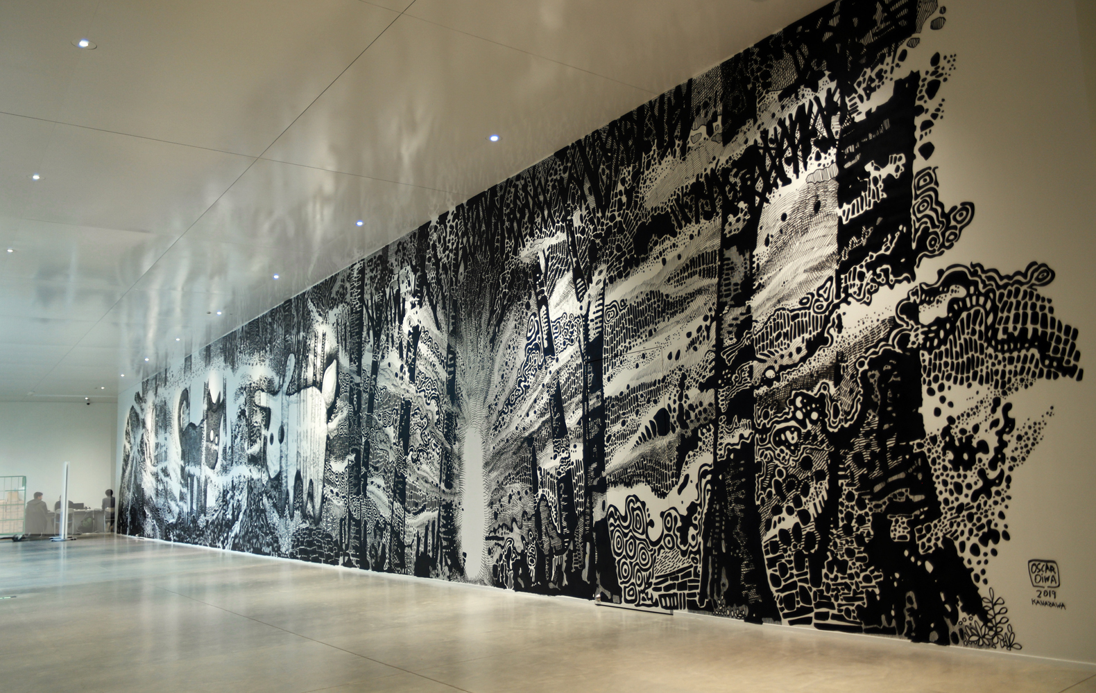 Marker pen drawing on wall, 4 x 27 meters, 21st Century Museum of Contemporary Art, Kanazawa.Image courtesy: ©Oscar Oiwa Studio, NY.